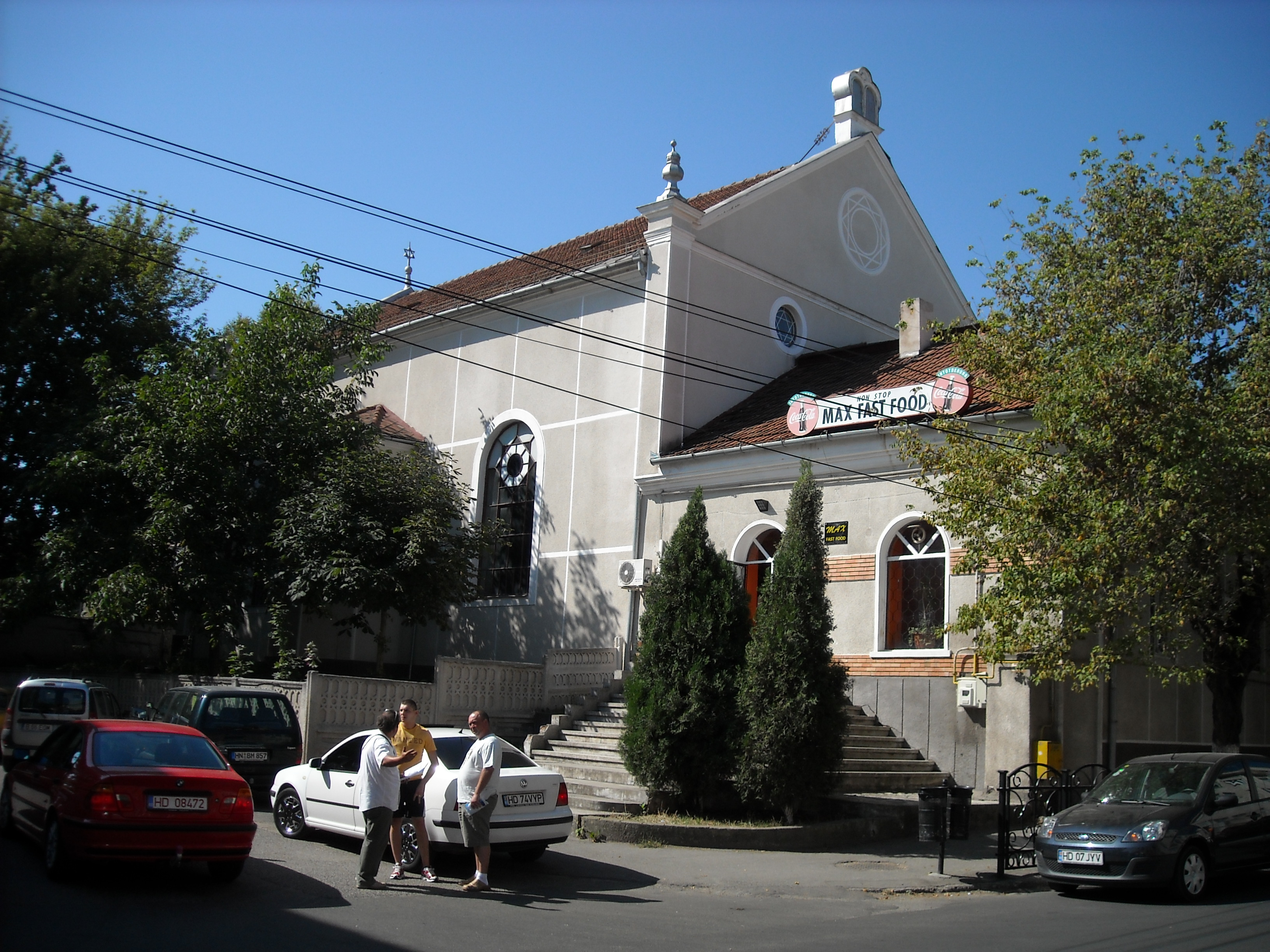 synagogue, Deva